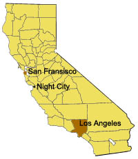 Location of Night City, fictive city in role-playing game Cyberpunk 2020